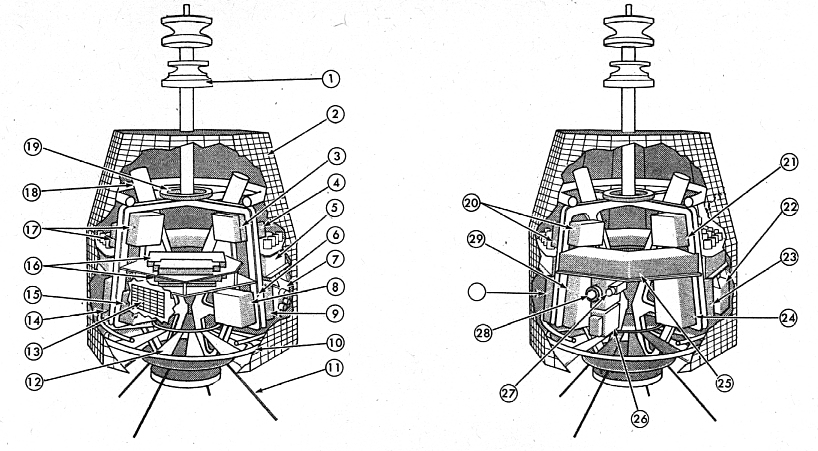 Relay 1 schema